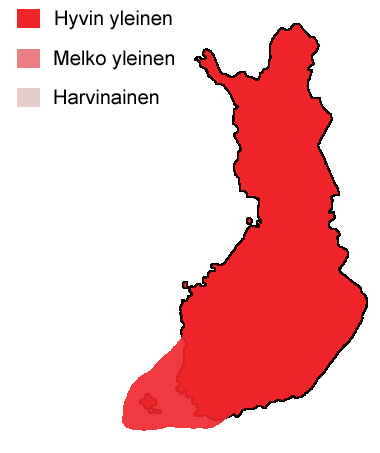 Spreading of Anas crecca in Finland. Dark red: Very common